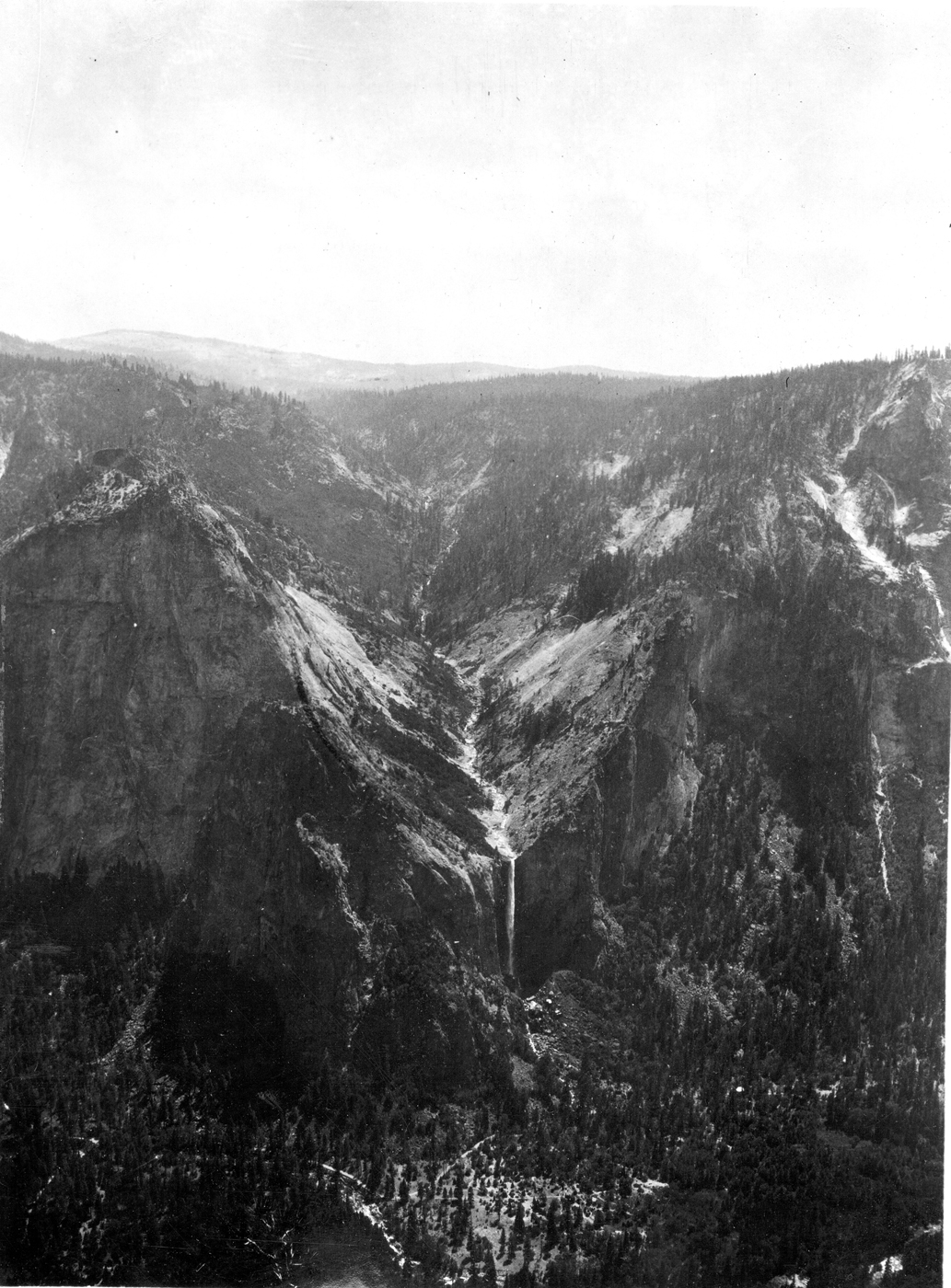 Yosemite National Park, California. Hanging valley of Bridalveil Creek, showing its pronounced form which is controlled, in large measure, by sparse diagonal joint structures. The valley has been occupied by ice, probably in the form of a more or less stagnant lobe of the main Yosemite Glacier, and is not believed to have been significantly altered by glacial erosion.